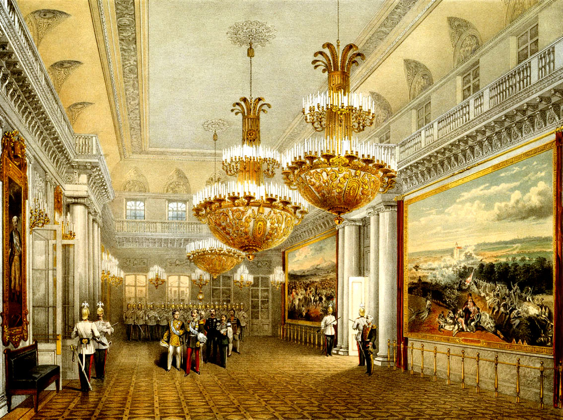 The Field Marshal's Hall of the Winter Palace by Vasily Sadovnikov (Василий Садовников)